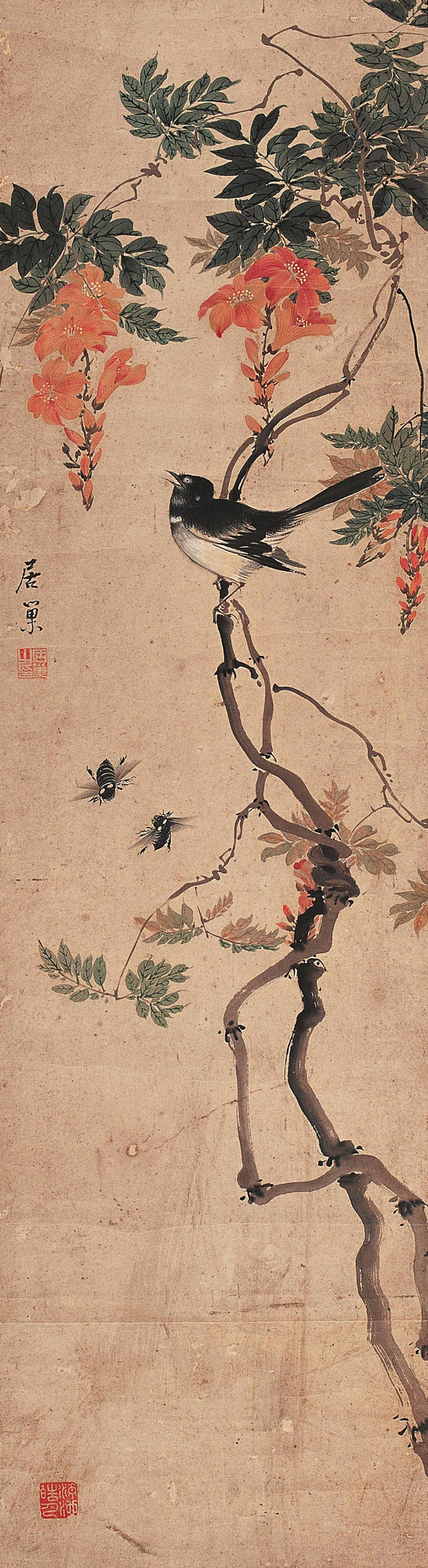 painting by Ju Chao